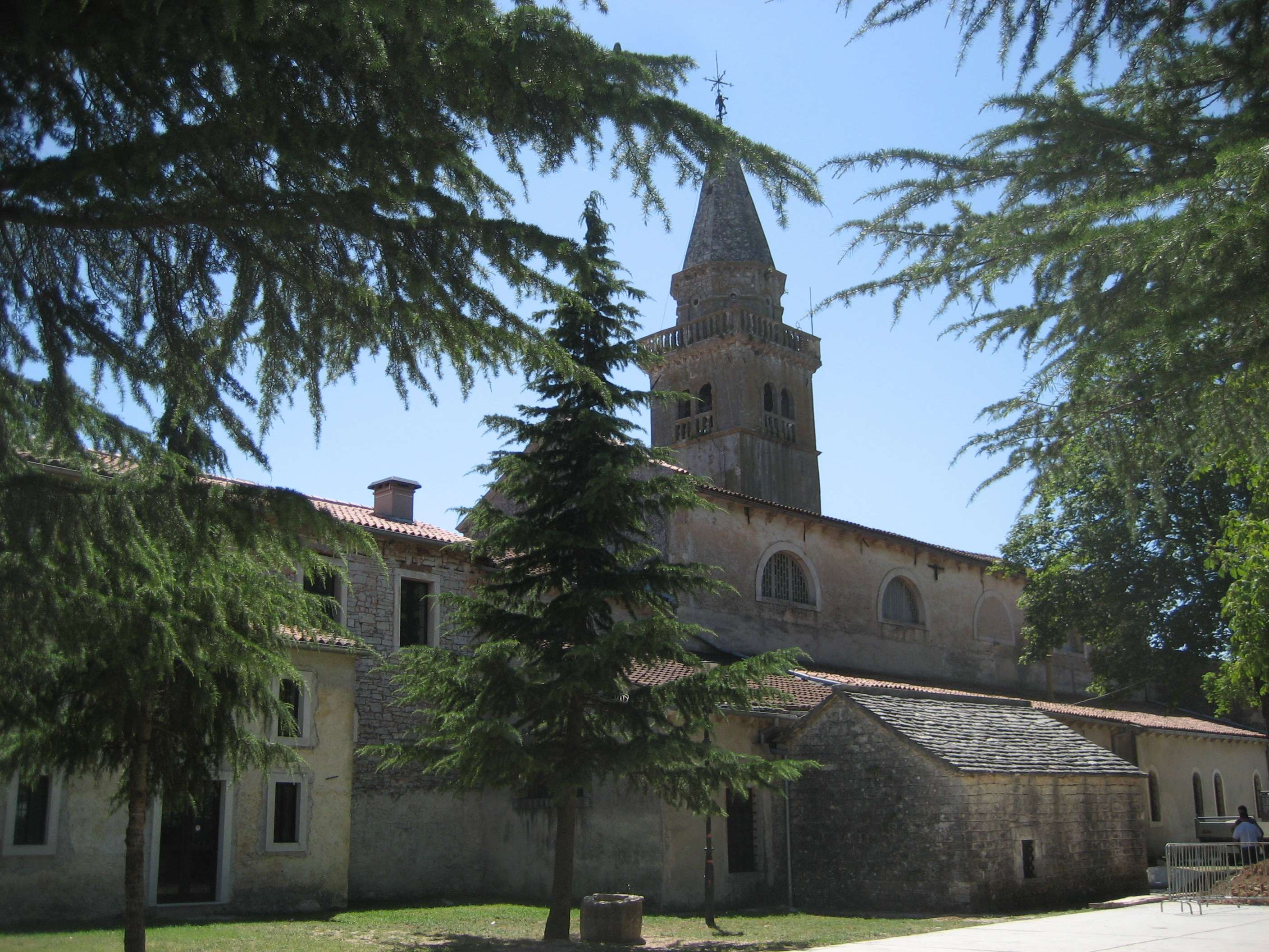 Zminj, Croatia